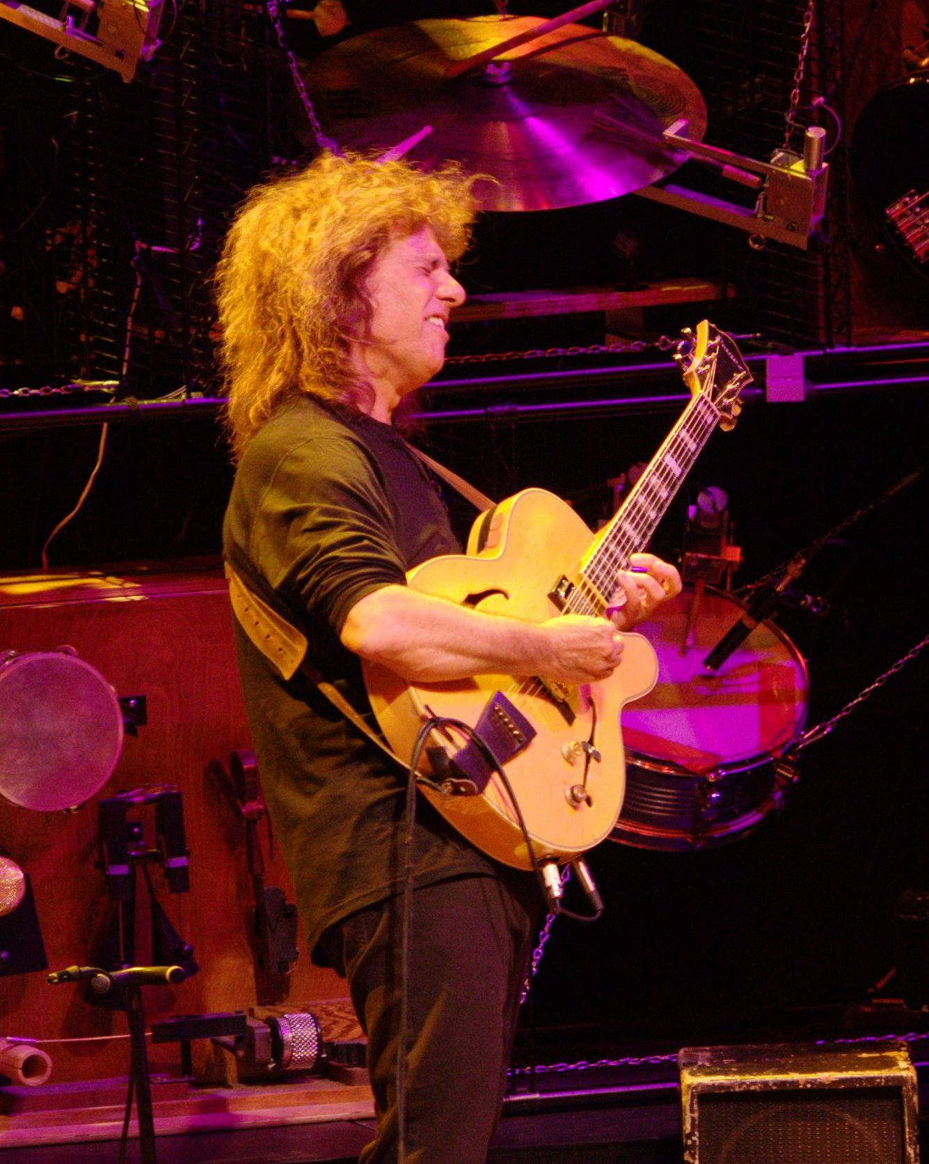 Cropped from original; Description Pat Metheny and the Orchestrion Project at the Nokia in Grand Prairie, Texas on Tuesday, 13 April 2010. Date13 April 2010, 20:45Sourceimg_7941AuthorR. Steven Rainwater from Dallas, US Licensing